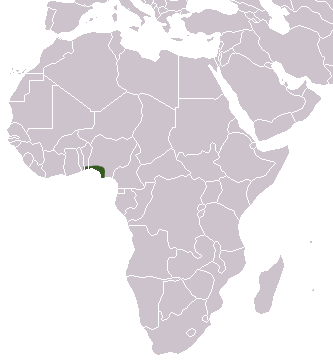 White-throated Guenon (Cercopithecus erythrogaster) range